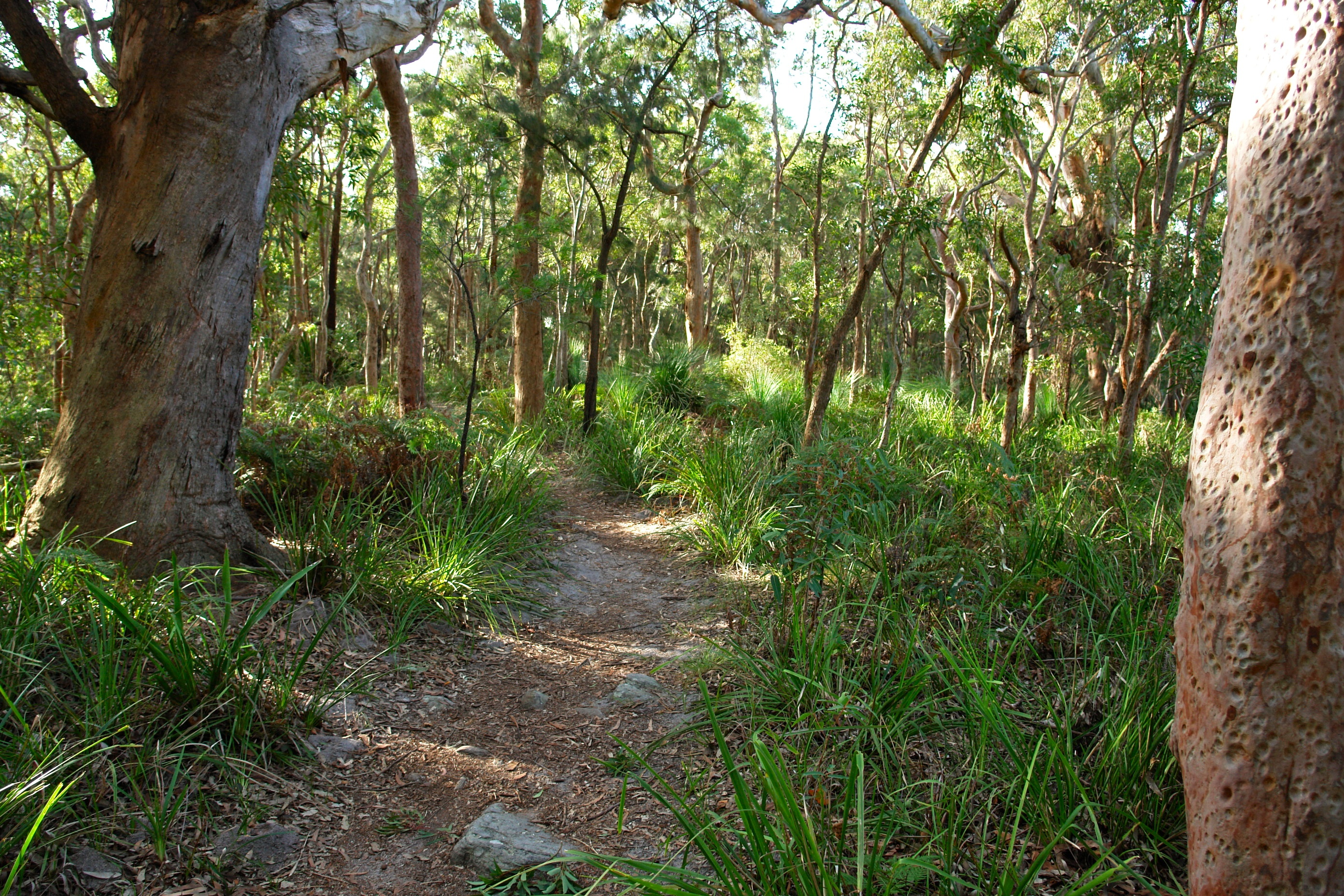 Bushland, Royal National Park, The Coast Walk Australia